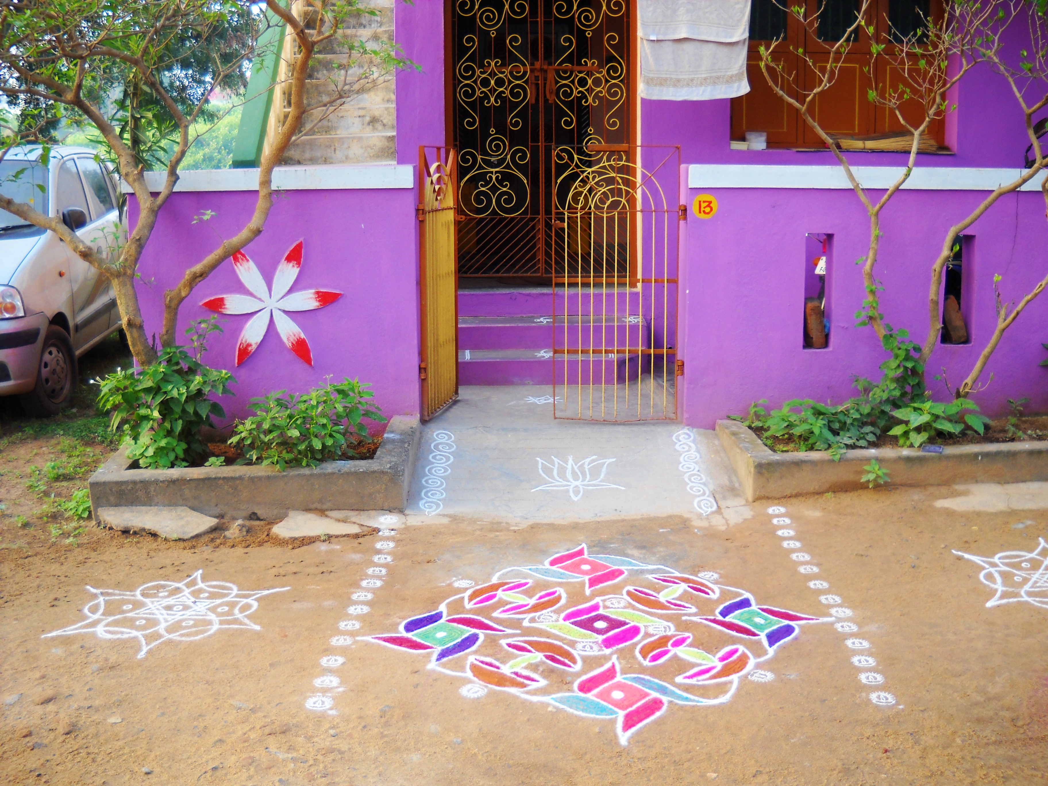 A house in Kanchipuram during Pongal festival